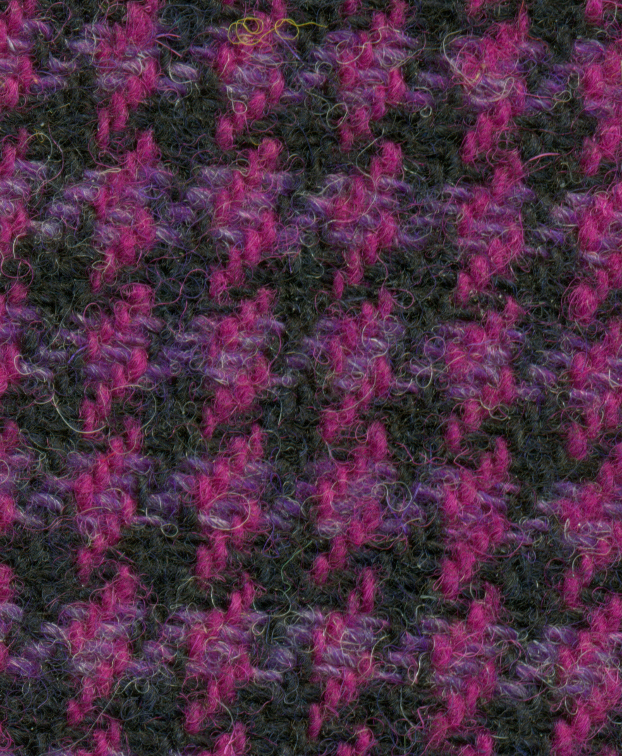 2D-scan of a cloth sample of Harris Tweed (houndstooth). Handwoven woolen cloth from the Outer Hebrides.